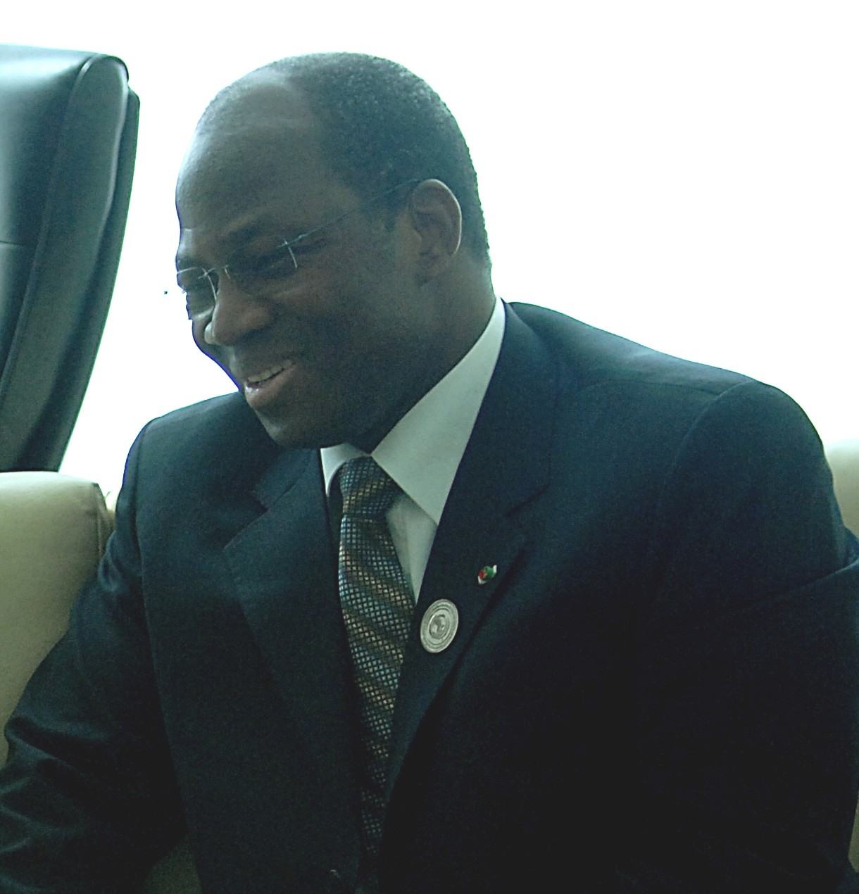 Djibril Bassolé, United Nations Special Envoy to Darfur Foreign Minister, cropped from photo meeting with Jendayi Frazer, U.S. Department of State Assistant Secretary for African Affairs, for a bilateral meeting during the 11th Ordinary Session of the Assembly of the Union at the African Union Summit July 1, 2008 in Sharm El Sheikh, Egypt. The theme of the summit is "Meeting the Millennium Development Goals on Water and Sanitation,” and participants will focus that theme as well as on the increase in the prices of food and agricultural commodities and on the elections in Zimbabwe.